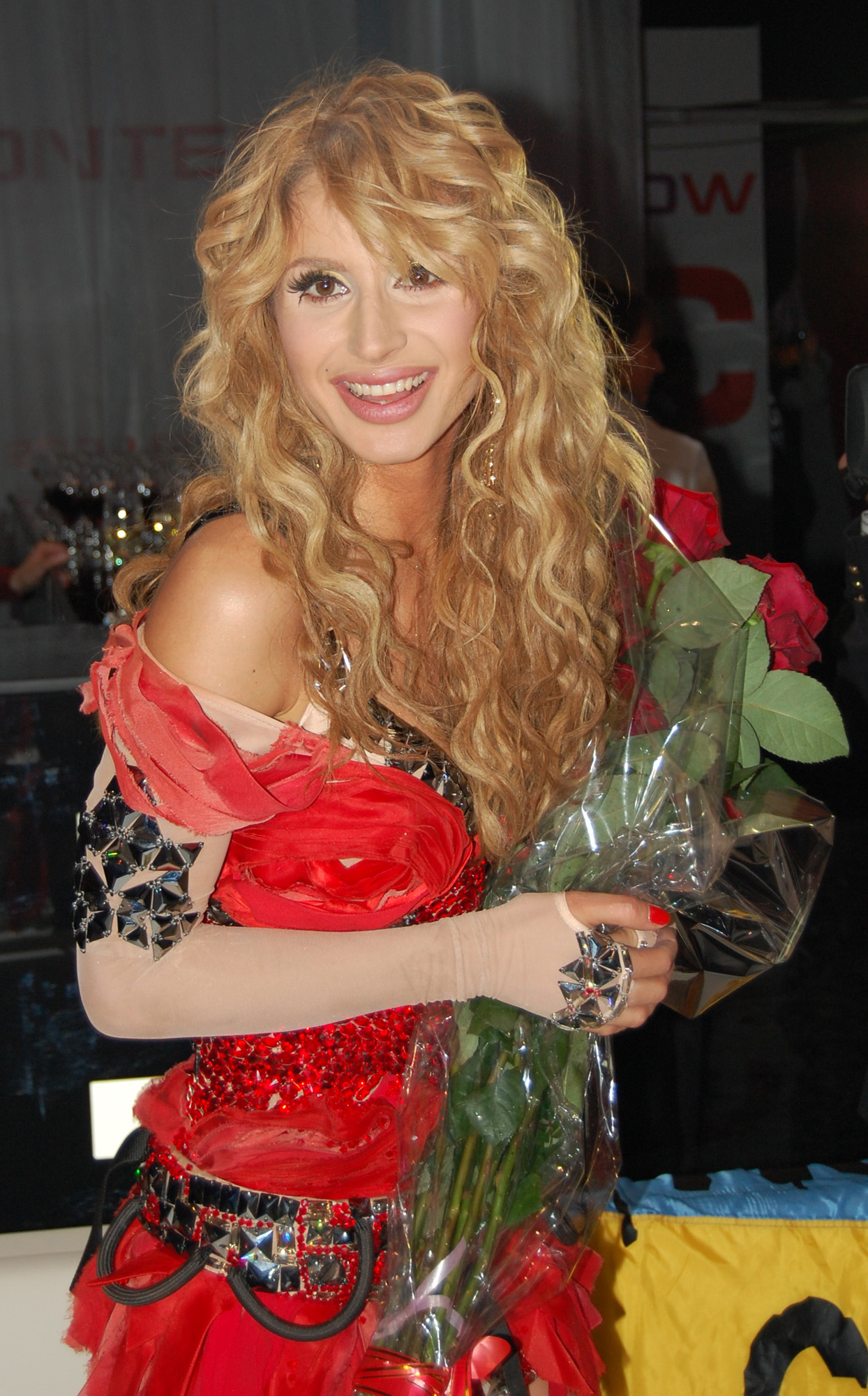 Svetlana Loboda at ESC 2009